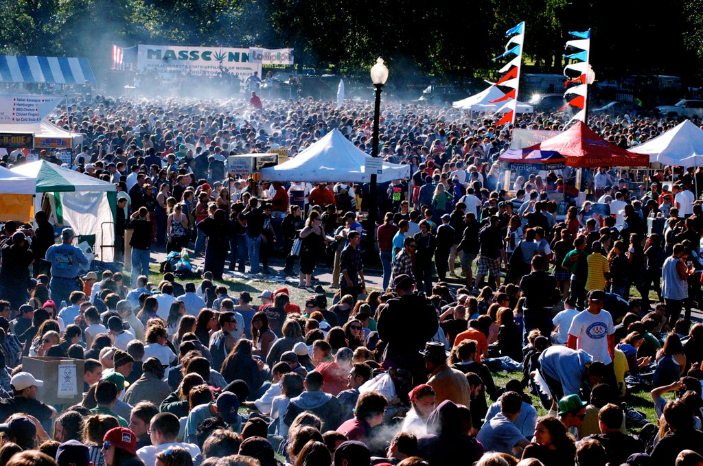 4:20 PM at MassCann/NORML's Boston Freedom Rally on September 13, 2009.